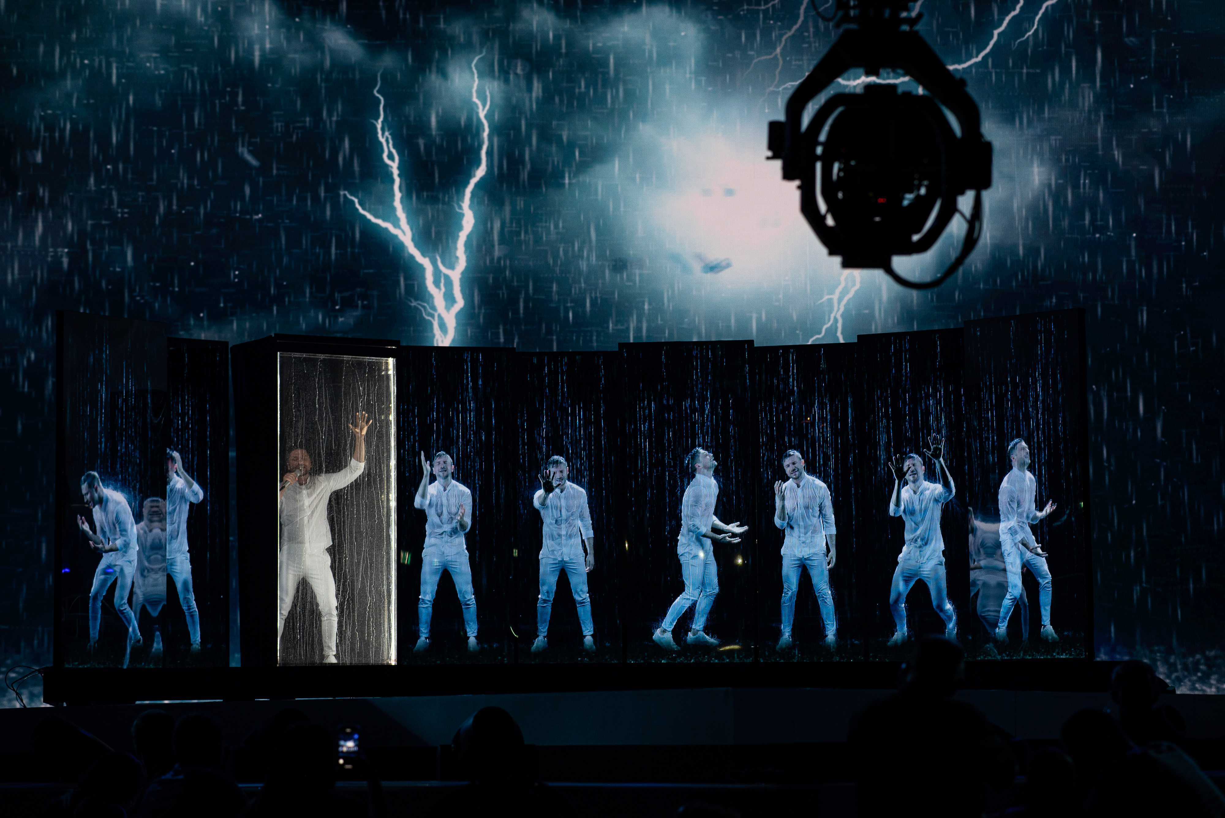 Sergey Lazarev representing Russia with the song "Scream" during a rehearsal before the grand final of the Eurovision Song Contest 2019 in Tel-Aviv.